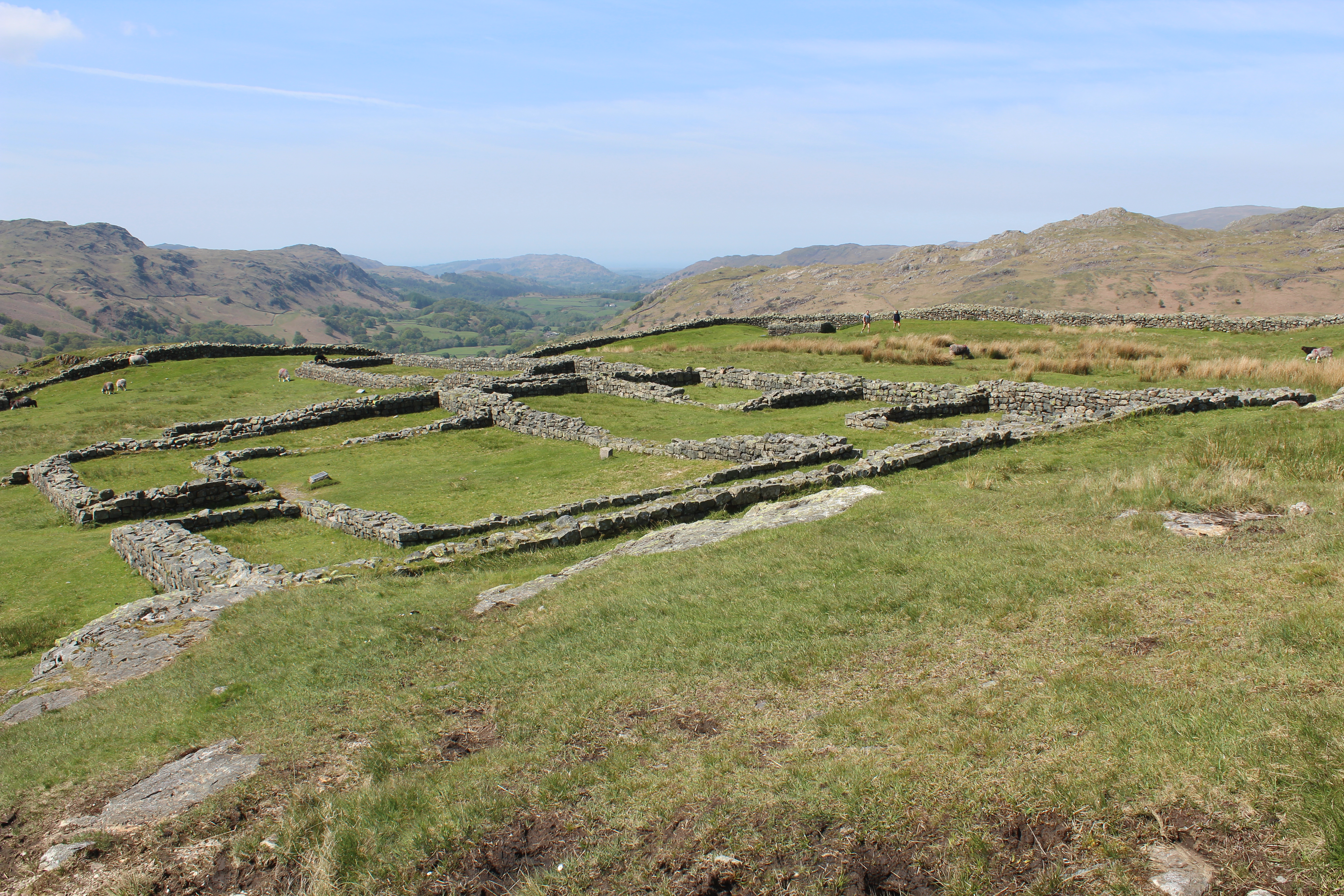 Principia or administrative block of the Hardknott Roman Fort. The principia was set at the centre of the fort. It consisted of a covered walkway around three sides of an open atrium (courtyard) and a hall on the fourth side. The tribunalis (tribunal) is a raised dais from which the commanding officer would give orders for the day, lead assemblies and so on. The aedes (shrine) where the units standards were kept was off the hall. The two remaining rooms were probably used for administration purposes. The main gate of the principia opened onto the via praetoria which led to the porta praetoria (main gate).